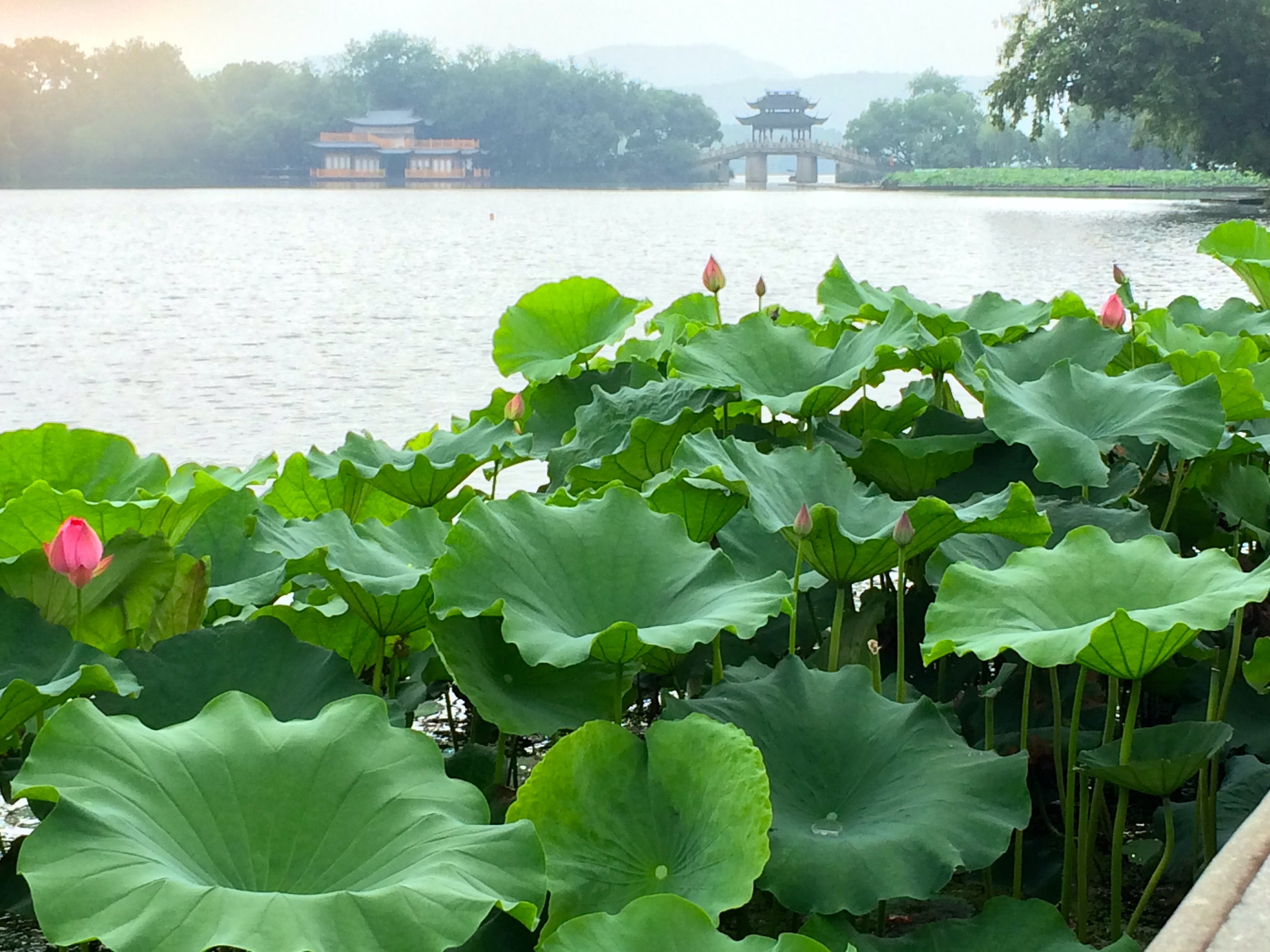 Lotus at West Lake